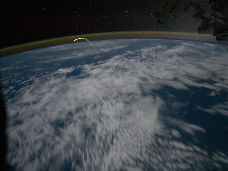 This unprecedented view of the space shuttle Atlantis, appearing like a bean sprout against clouds and city lights, on its way home, was photographed by the Expedition 28 crew of the International Space Station. Airglow over Earth can be seen in the background.